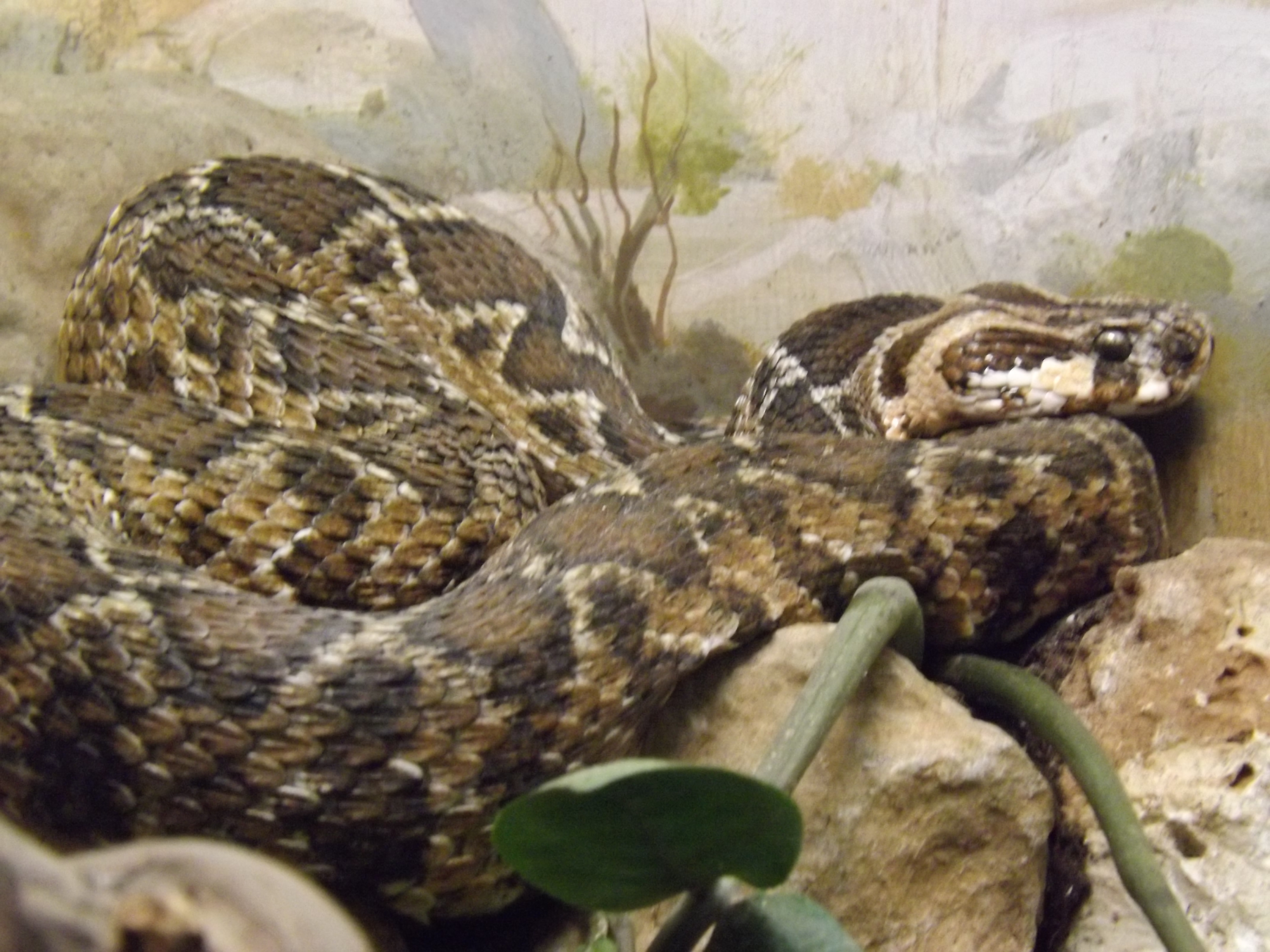 A Palestine Viper (Vipera palaestinae) at the Jerusalem Biblical Zoo.